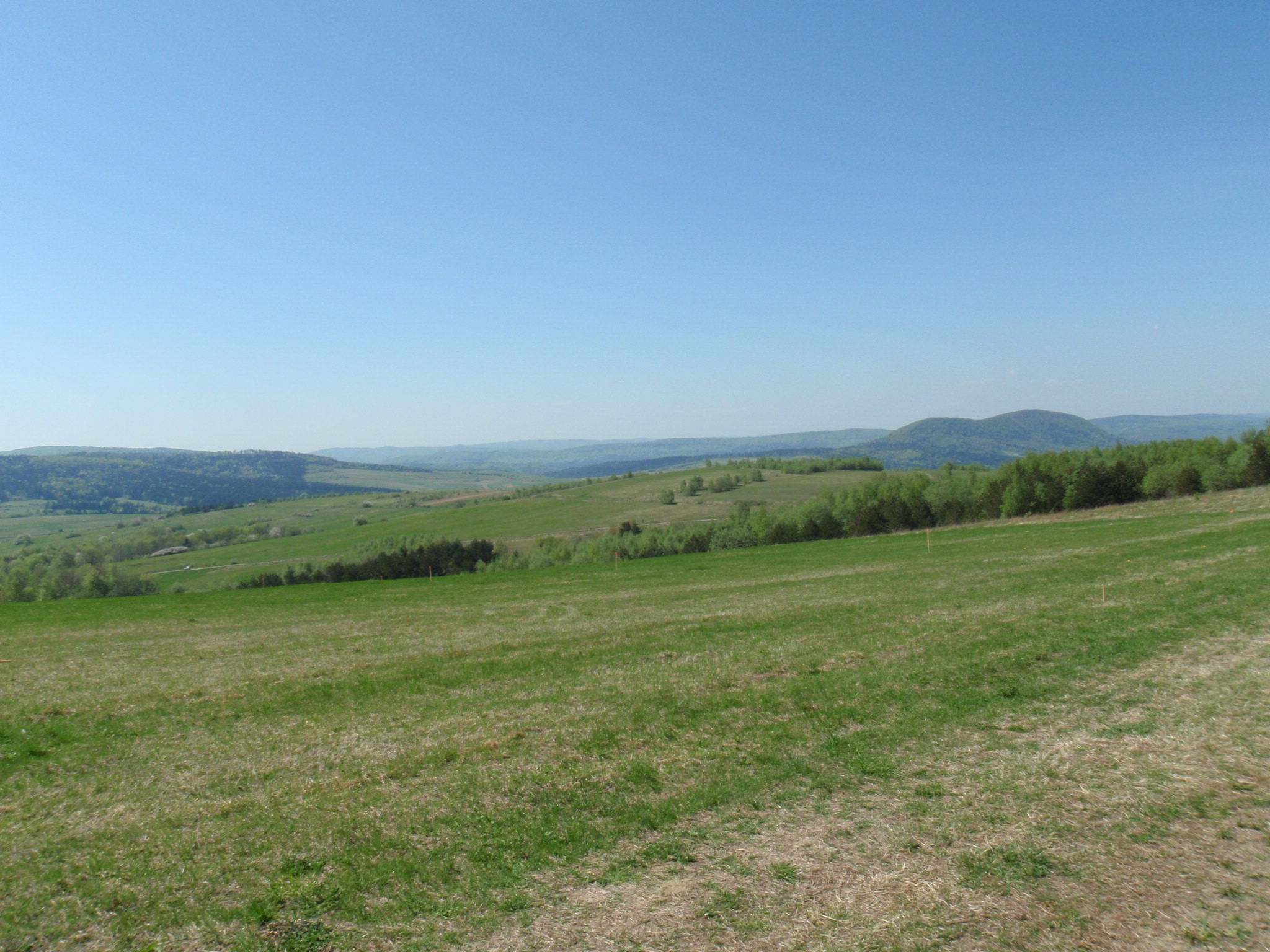 View from Przymiarki mountain on Beskid Dukielski. Cergowa mountain (right) and Piotruś mountain (extreme left in background) are visible.